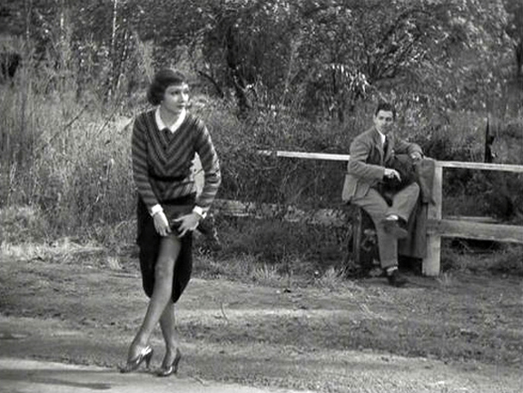 Cropped screenshot of Claudette Colbert and Clark Gable from the trailer for the film It Happened One Night.